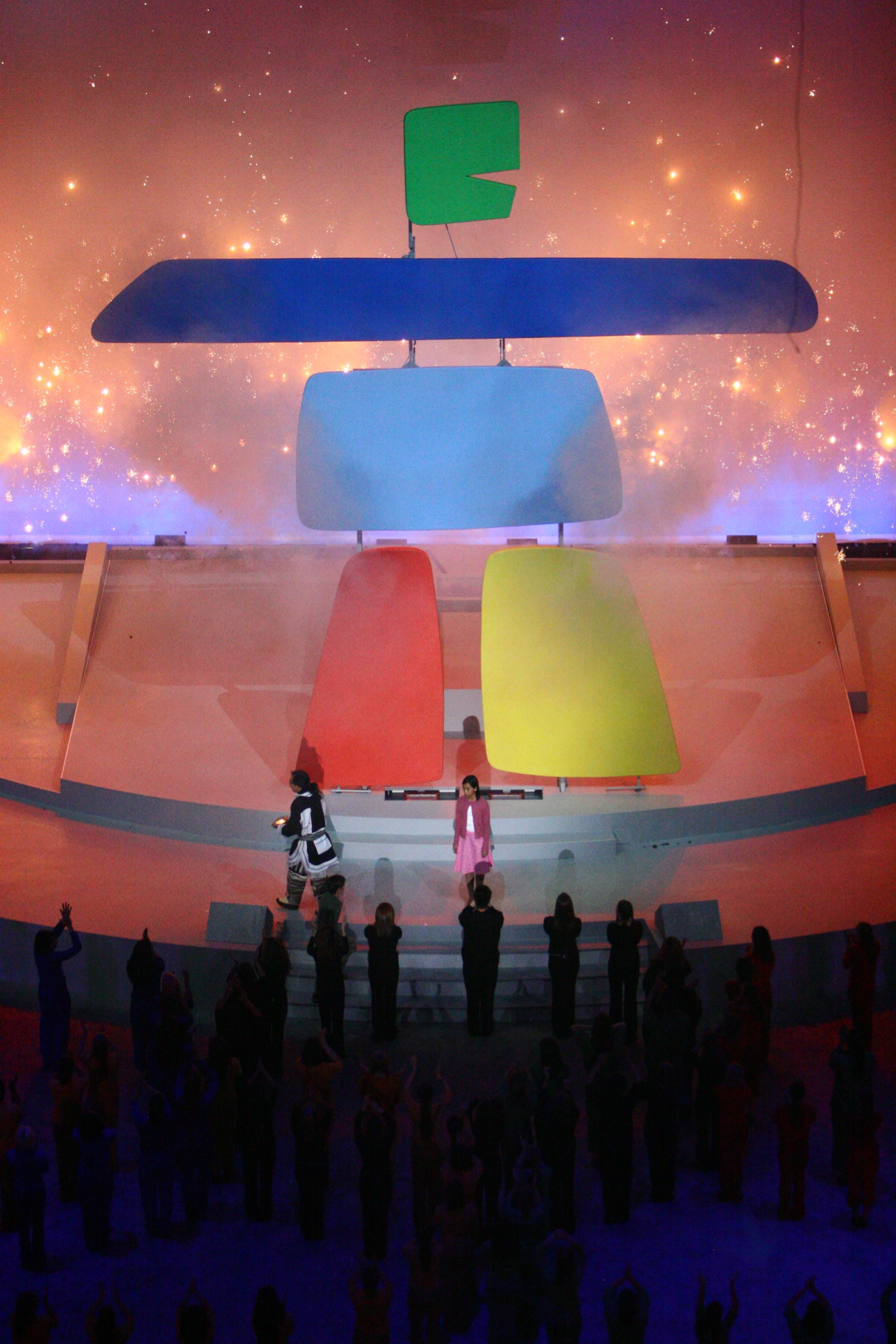 Ilanaaq the Inuit Inukshuk Imagine 2010 - Canada's Olympic journey begins, unveiling ceremony of the Vancouver 2010 Olympic Winter Games emblem (Ilanaaq the Inukshuk), April 23, 2005